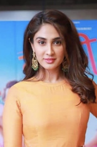 Deepti Sati at the Promo launch of "Luckee"